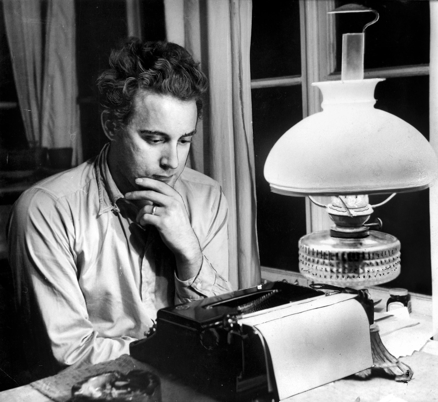 The writer Werner Aspenström at his typewriter, 1950.